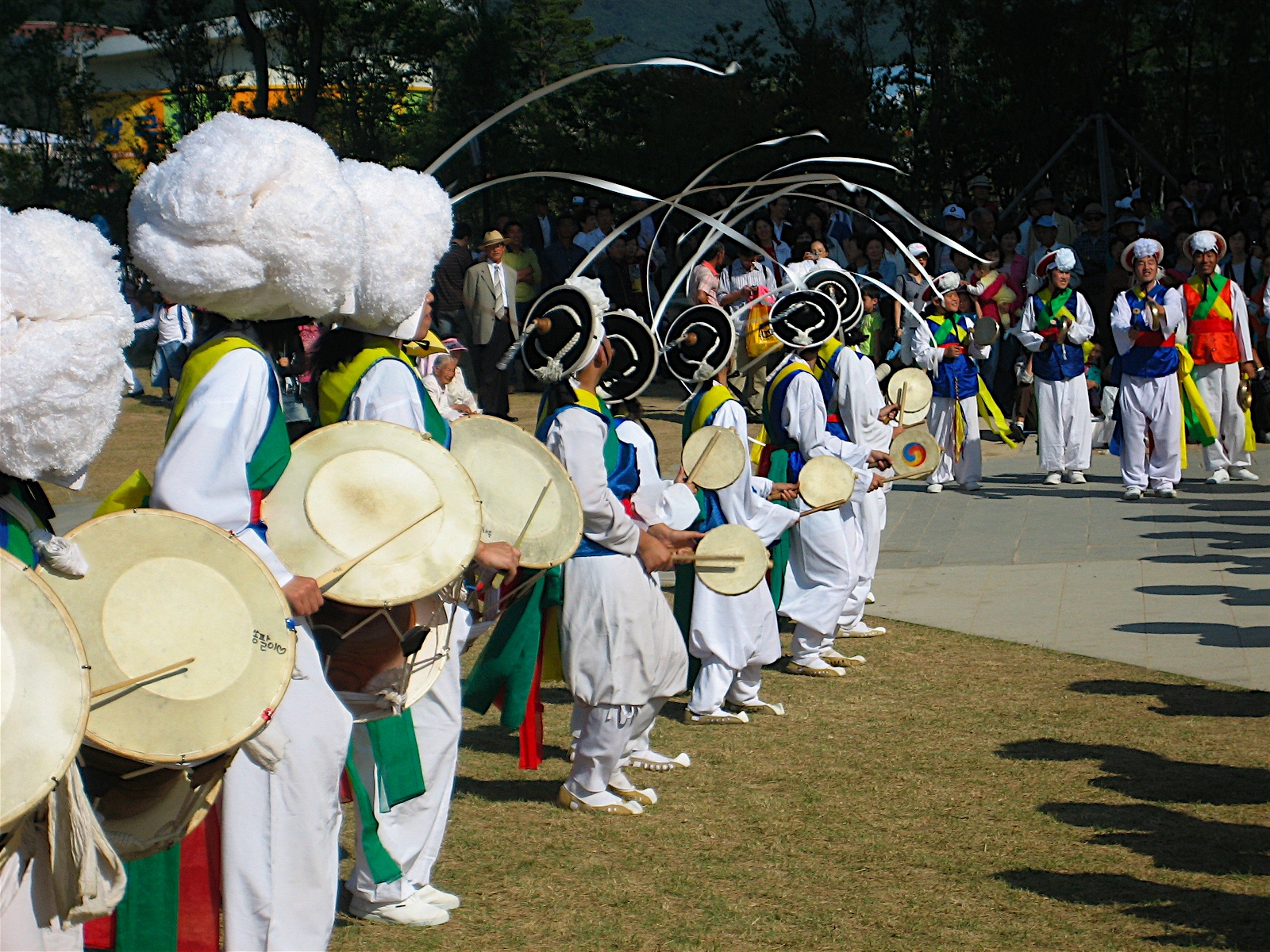 A scene of Gyeongju World Culture Expo 2007 held in Gyeongju, Gyeongsangbuk-do, South Korea